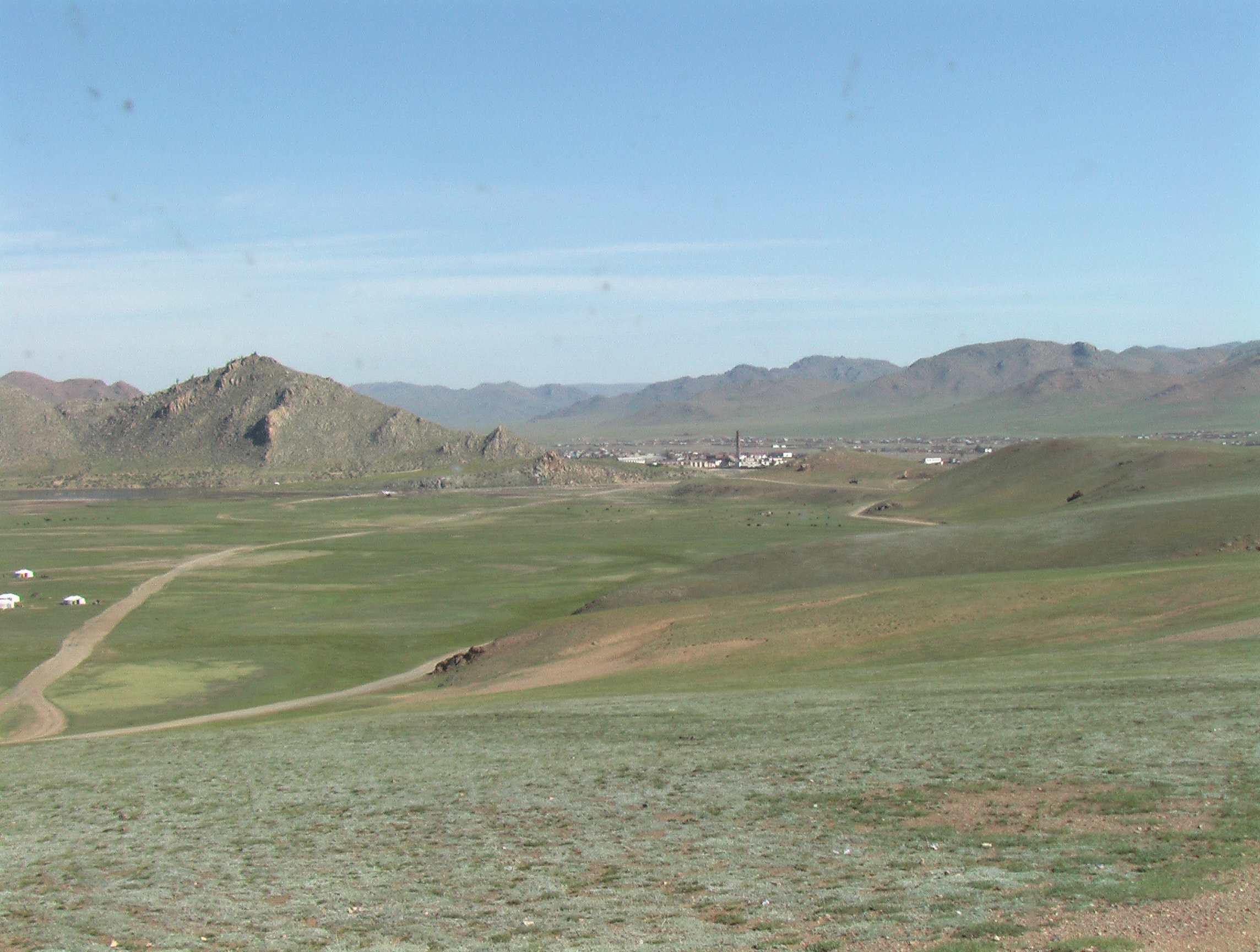 View of the Tosontsengel settlement, Zavkhan povince, Mongolia